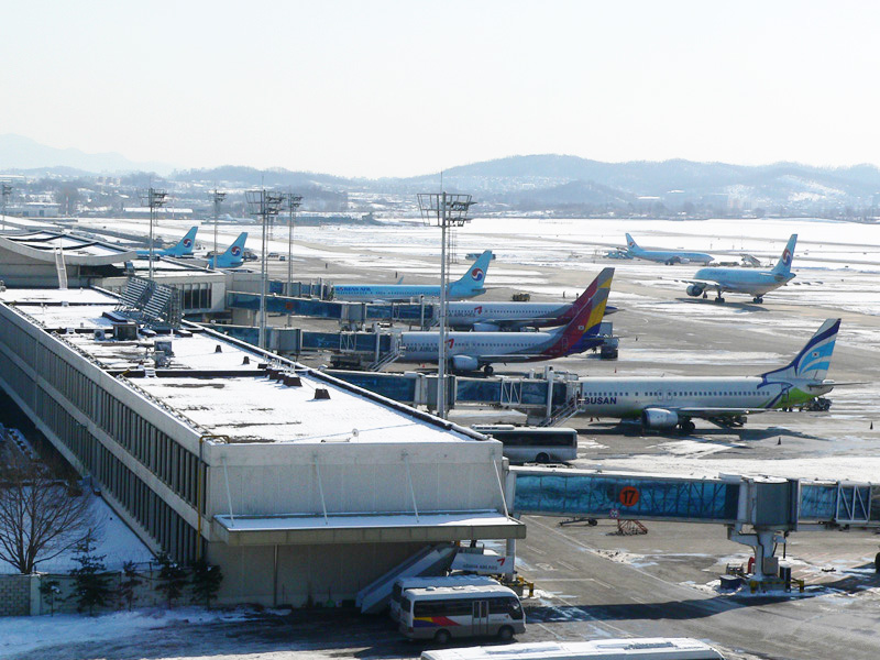 Gimpo International Airport Domestic Terminal